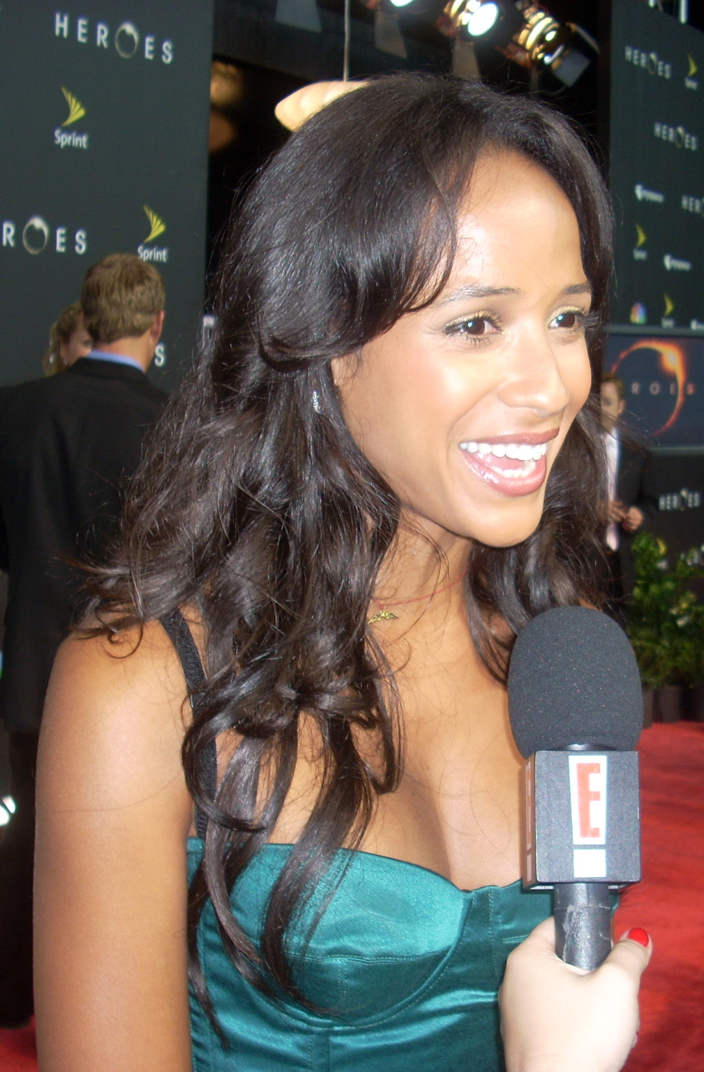 Dania Ramirez in "Heroes" Season Three Premiere Party, Edison L.A., Downtown Los Angeles - Sept. 7, 2008